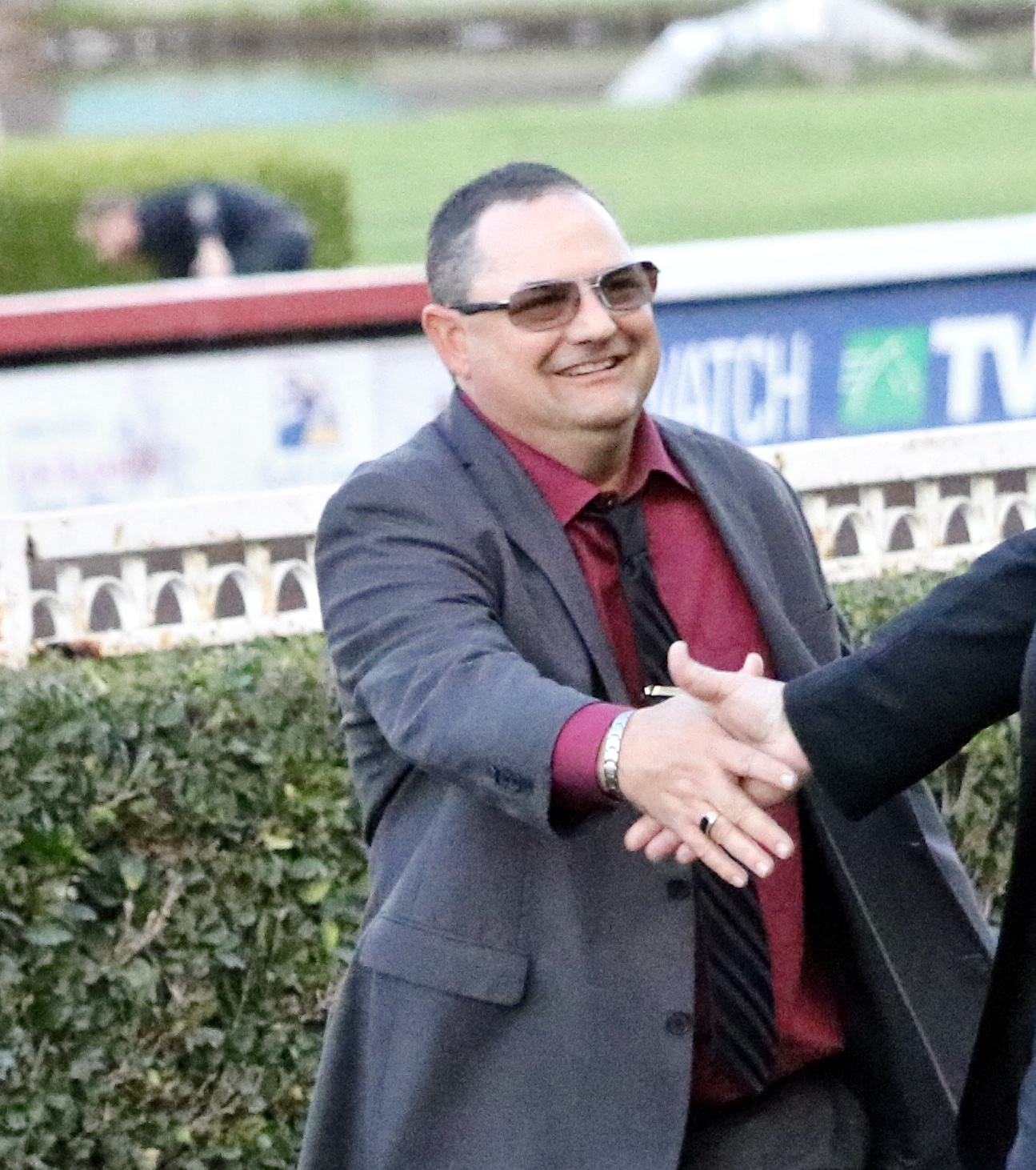 Alan Sherman after win of California Chrome in the Winter Challenge Stakes (by 12 lengths) at Los Alamitos Race Track, December 17, 2016